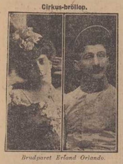 Swedish circus artists (née Jungmann; 1884-1979) and Erland Orlando (1886-1948). Photos published in connection with their wedding in 1910.